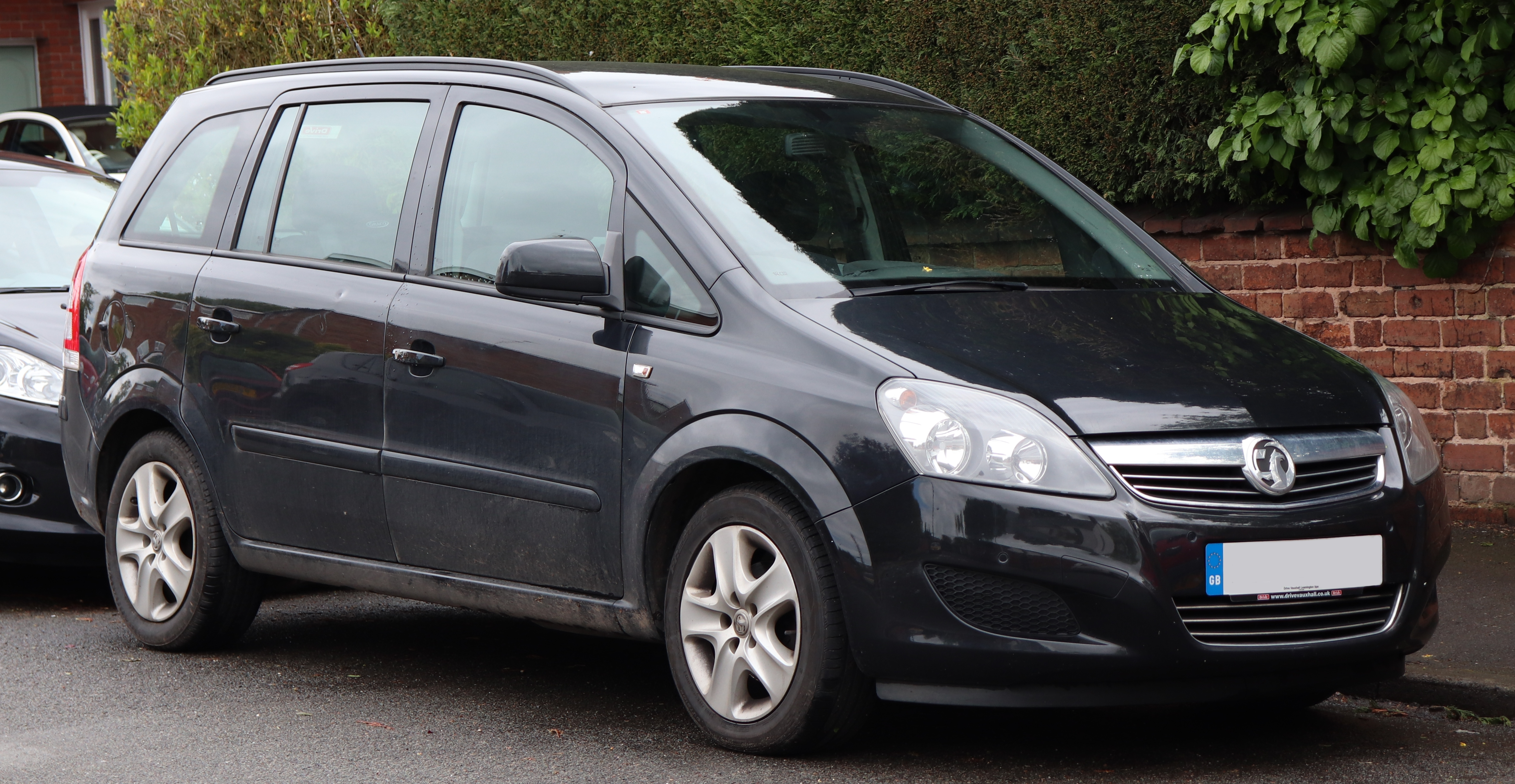 2012 Vauxhall Zafira Exclusiv 1.6 Front (Mini facelift with new Vauxhall badge) Taken in Leamington Spa